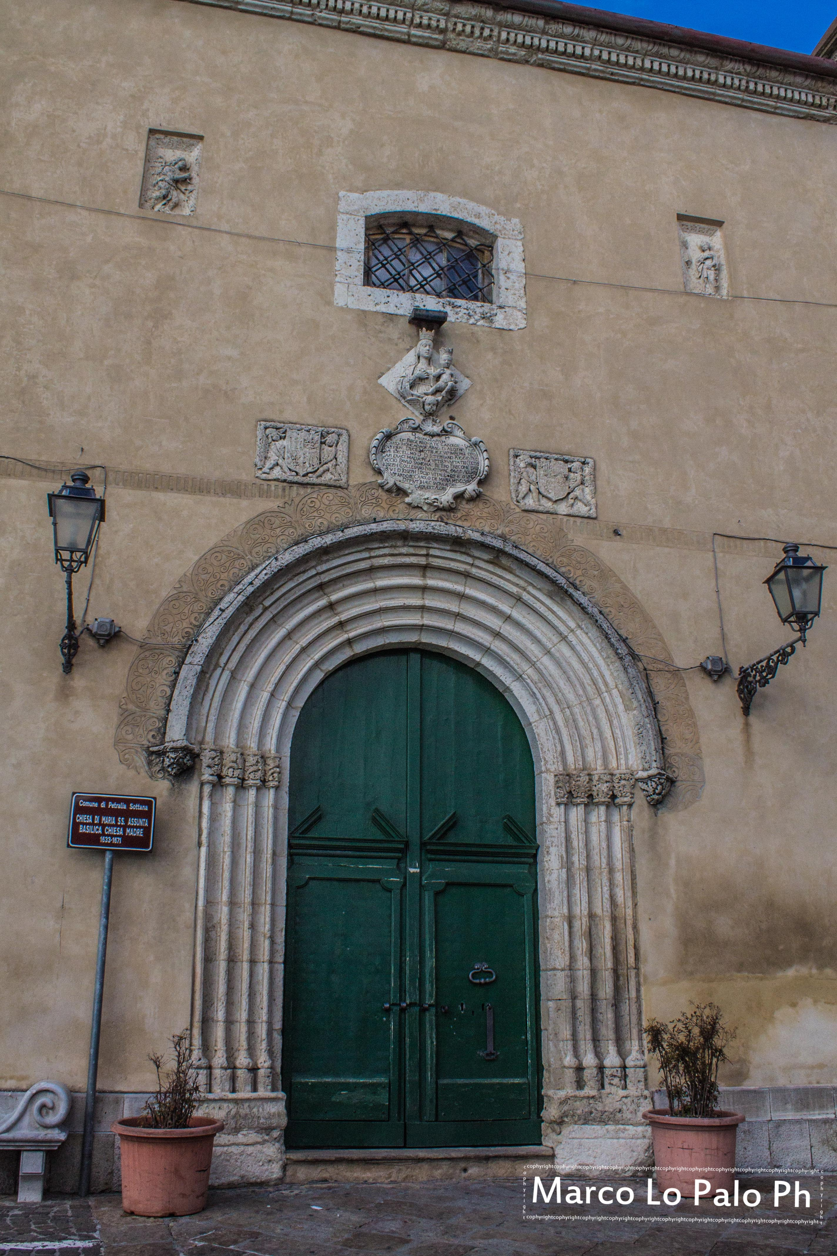 secondoportalechiesamadre